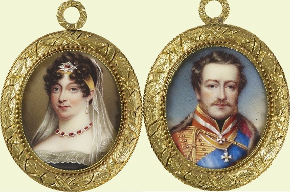 Isabel del Reino Unido y Federico VI de Hesse-Homburg